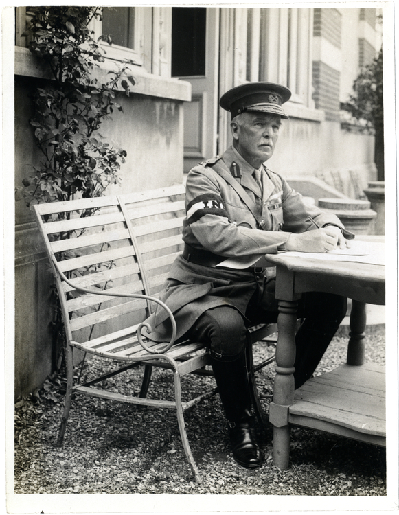 Sir James Willcocks at work [Merville, France].